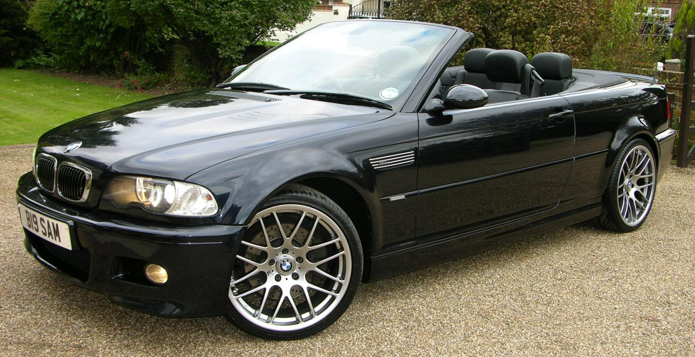 BMW M3 SMG Convertible